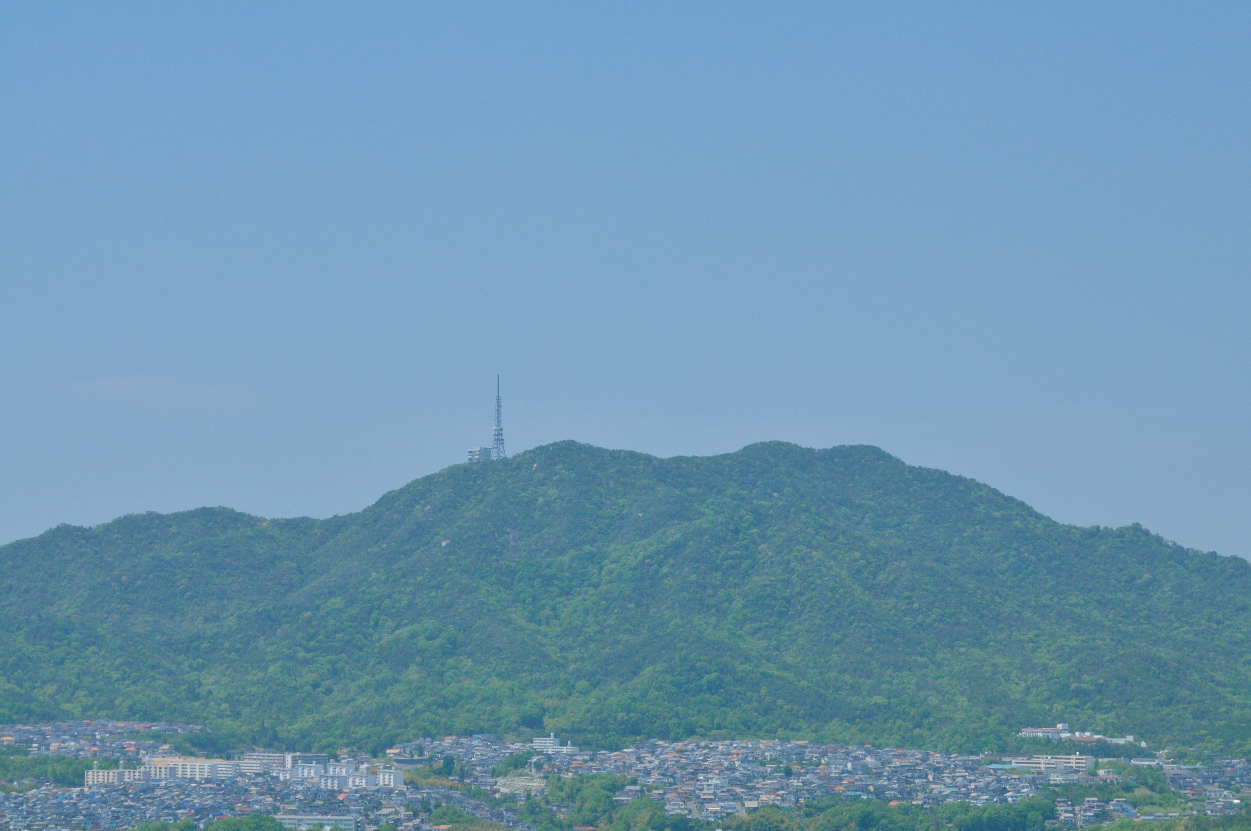 Mount Ege (Egesan) in Hiroshima, Japan, as seen from the southeast